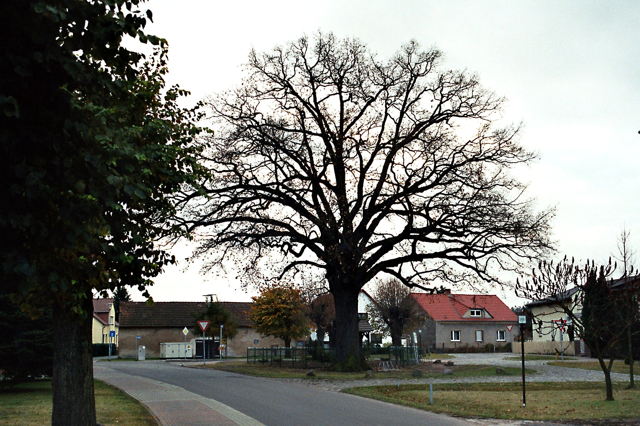 Guhrow, the peace oak